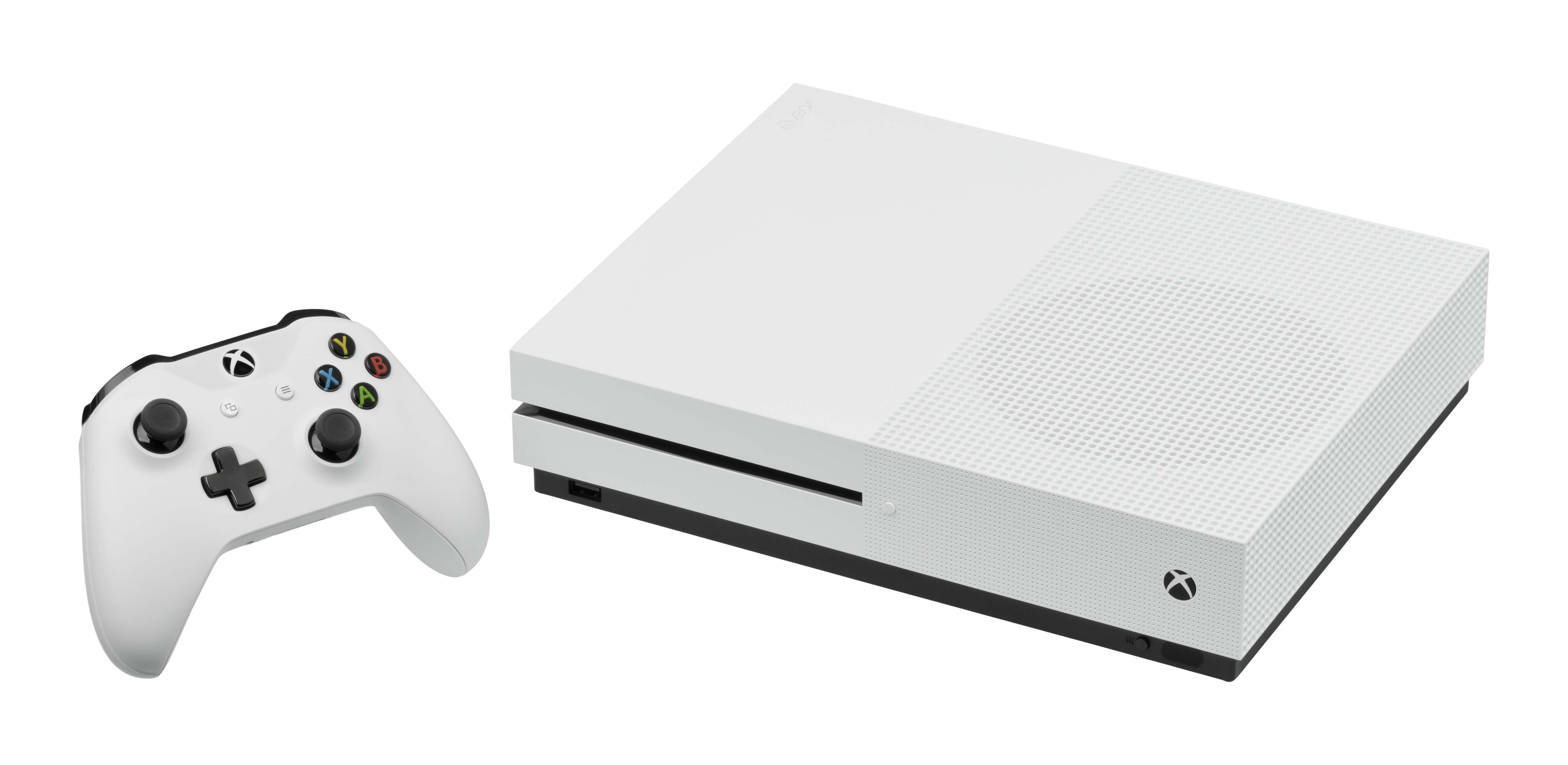 The Xbox One S, a video game console made by Microsoft and released in 2016. The "S" is a slimmer model of the previous One that was first released in 2013. Besides being smaller, the S has new features like HDR and 4K video from streaming and UHD Blu-Ray sources.